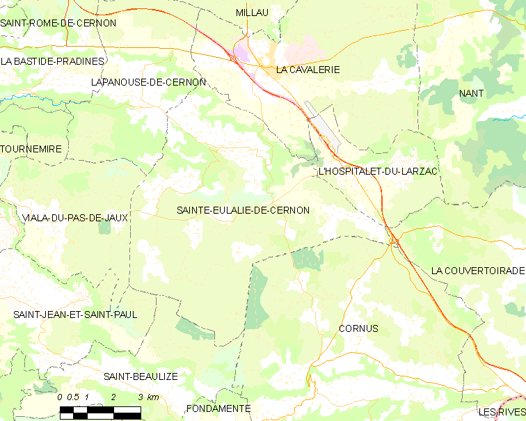 Map commune FR insee code 12220.png - Sainte-Eulalie-de-Cernon